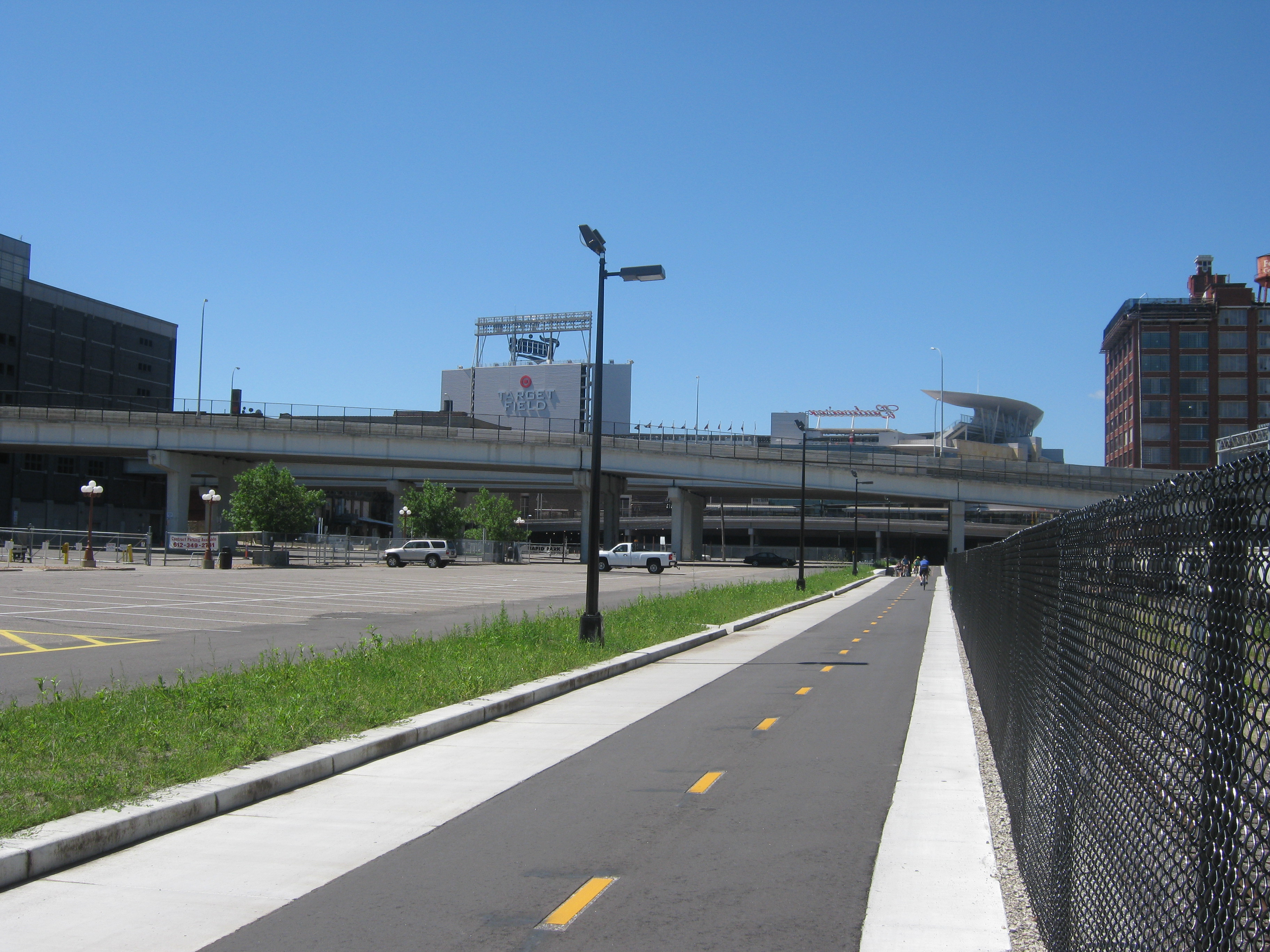 A new stretch of the Cedar Lake bike trail by Target Field, the Minnesota Twins' stadium in downtown Minneapolis, in July 2011